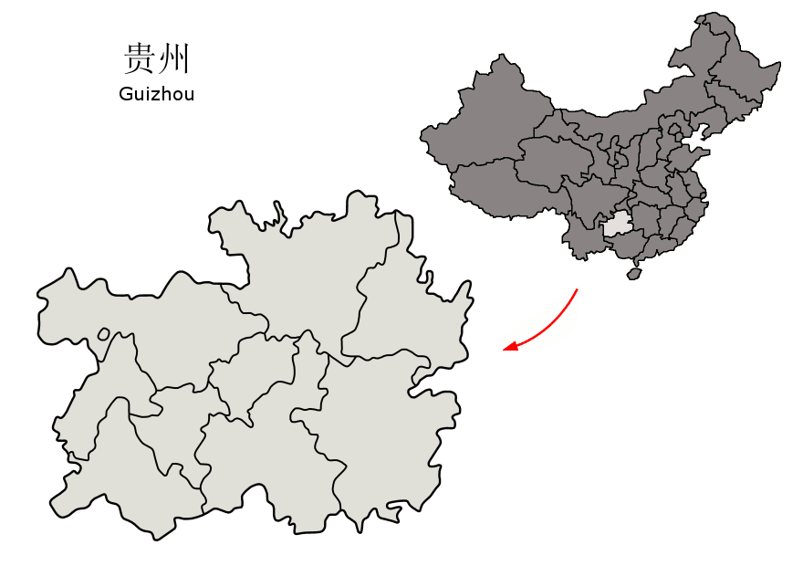 Prefectures of Guizhou province of China Map drawn in november 2007 using various sources, mainly : Guizhou province administrative regions GIS data: 1:1M, County level, 1990 Guizhou Counties map from